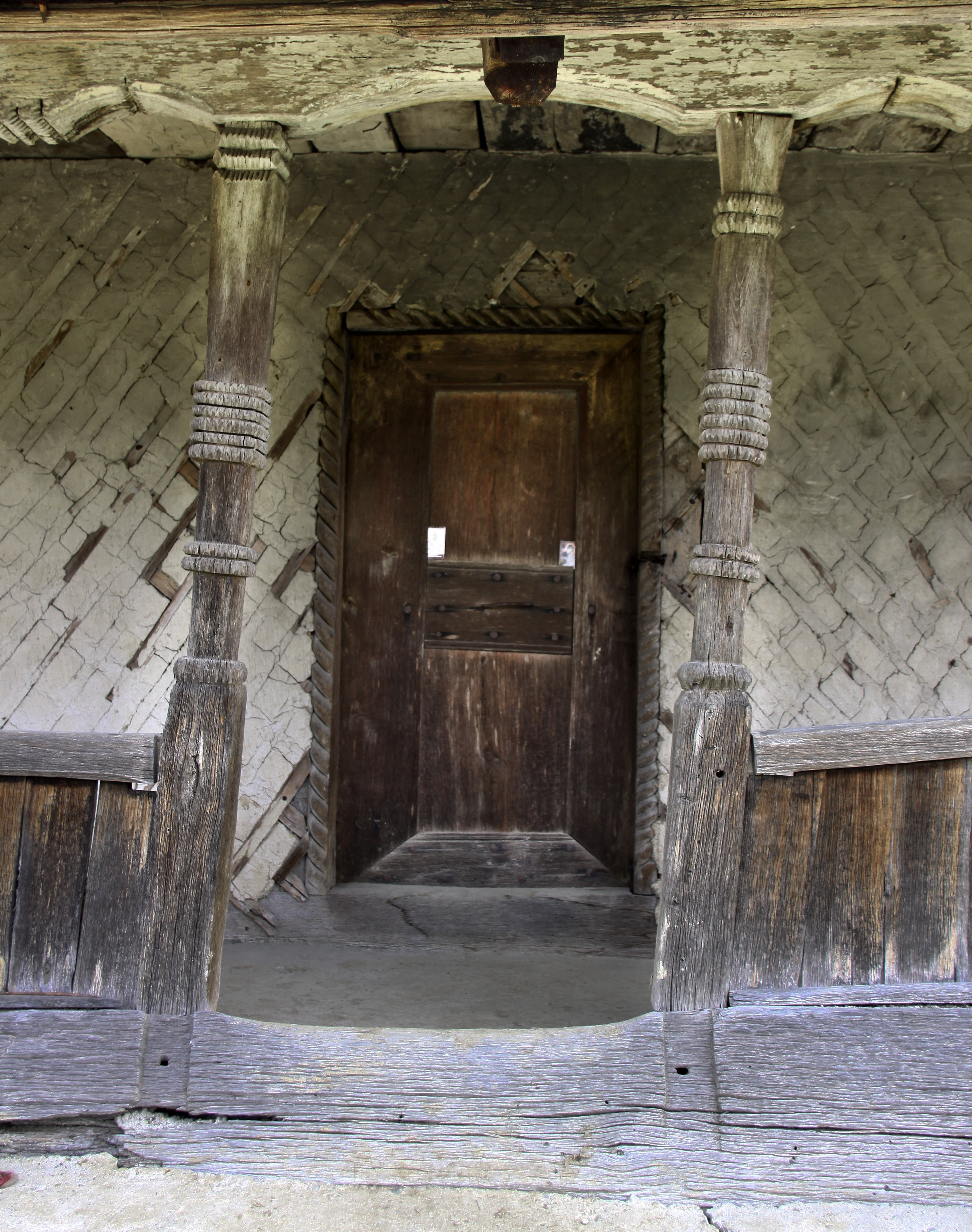 Amărăşti, Vâlcea county, Romania: the wooden church, entrance.